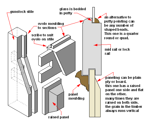 Sketch by Bill Bradley. billbeee (talk) 07:38, 26 December 2007 (UTC) Feel free to use it, just credit me as the creator. You can contact me through my website my website